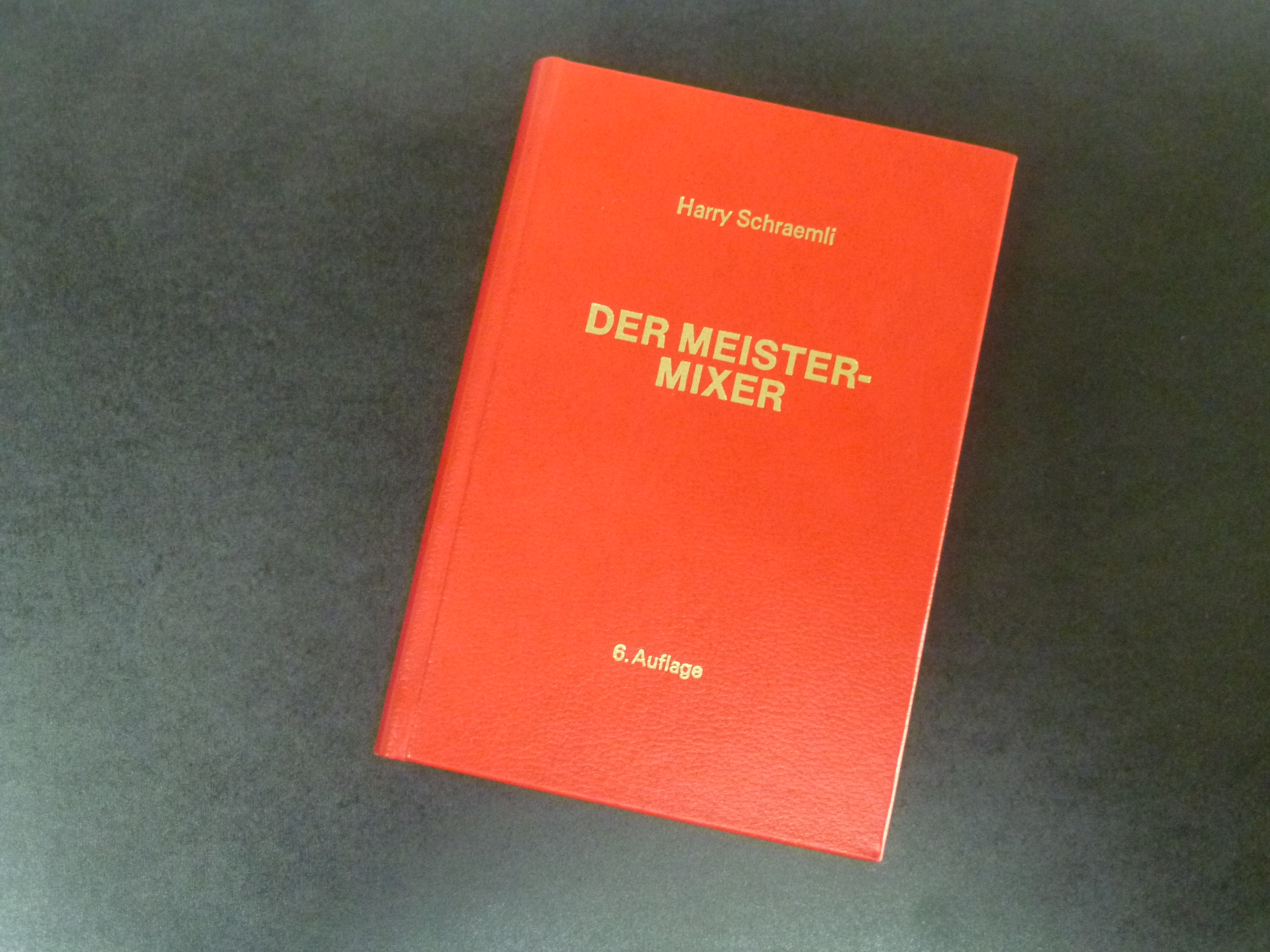 Harry Schraemlis masterpiece book